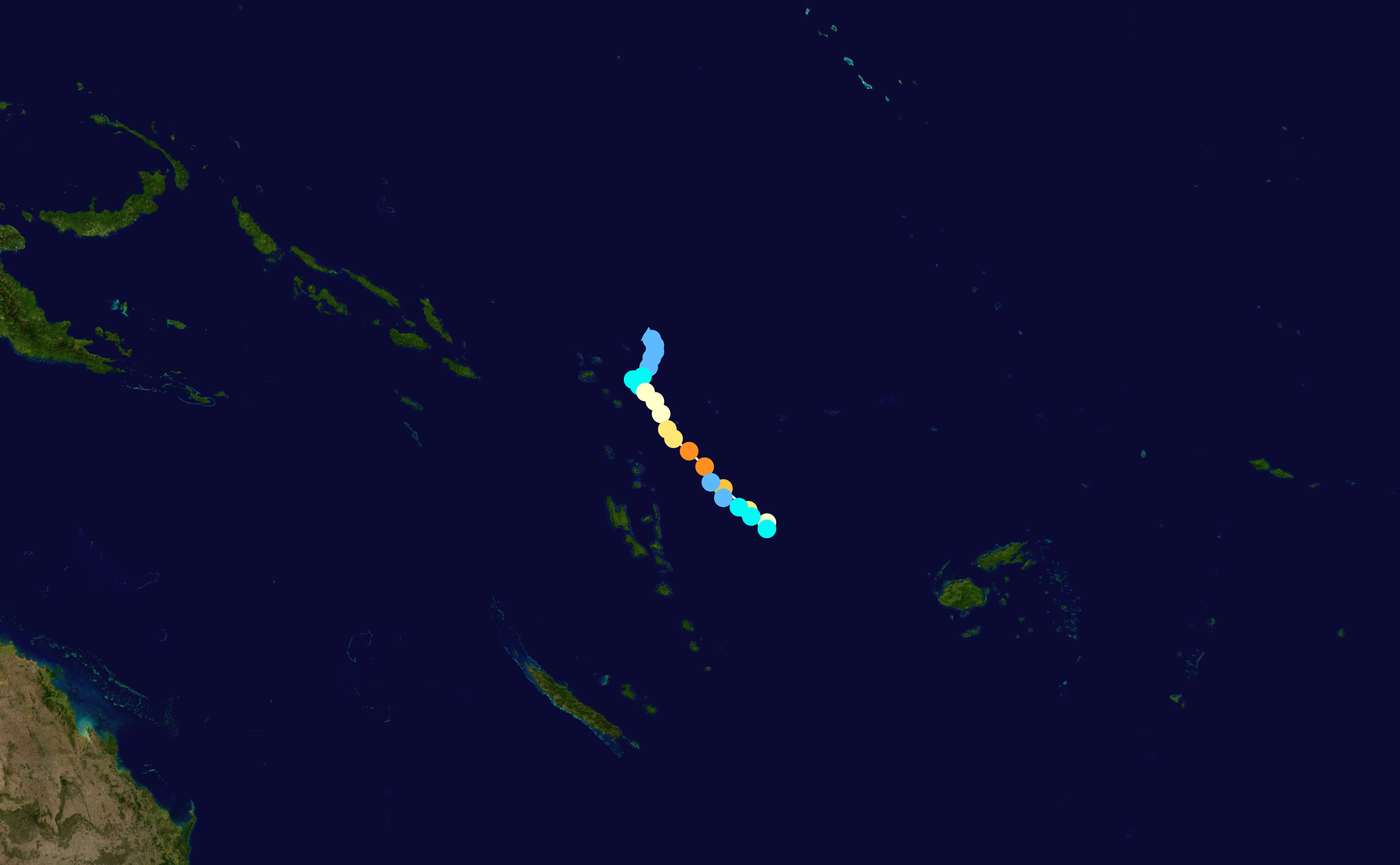 Track map of Severe Tropical Cyclone Xavier of the 2006-07 South Pacific cyclone season. The points show the location of the storm at 6-hour intervals. The colour represents the storm's maximum sustained wind speeds as classified in the Saffir–Simpson scale (see below), and the shape of the data points represent the nature of the storm, according to the legend below. Saffir–Simpson scale Tropical depression≤38 mph≤62 km/h Category 3111–129 mph178–208 km/h Tropical storm39–73 mph63–118 km/h Category 4130–156 mph209–251 km/h Category 174–95 mph119–153 km/h Category 5≥157 mph≥252 km/h Category 296–110 mph154–177 km/h Unknown Storm type Tropical cyclone Subtropical cyclone Extratropical cyclone / Remnant low / Tropical disturbance / Monsoon depression